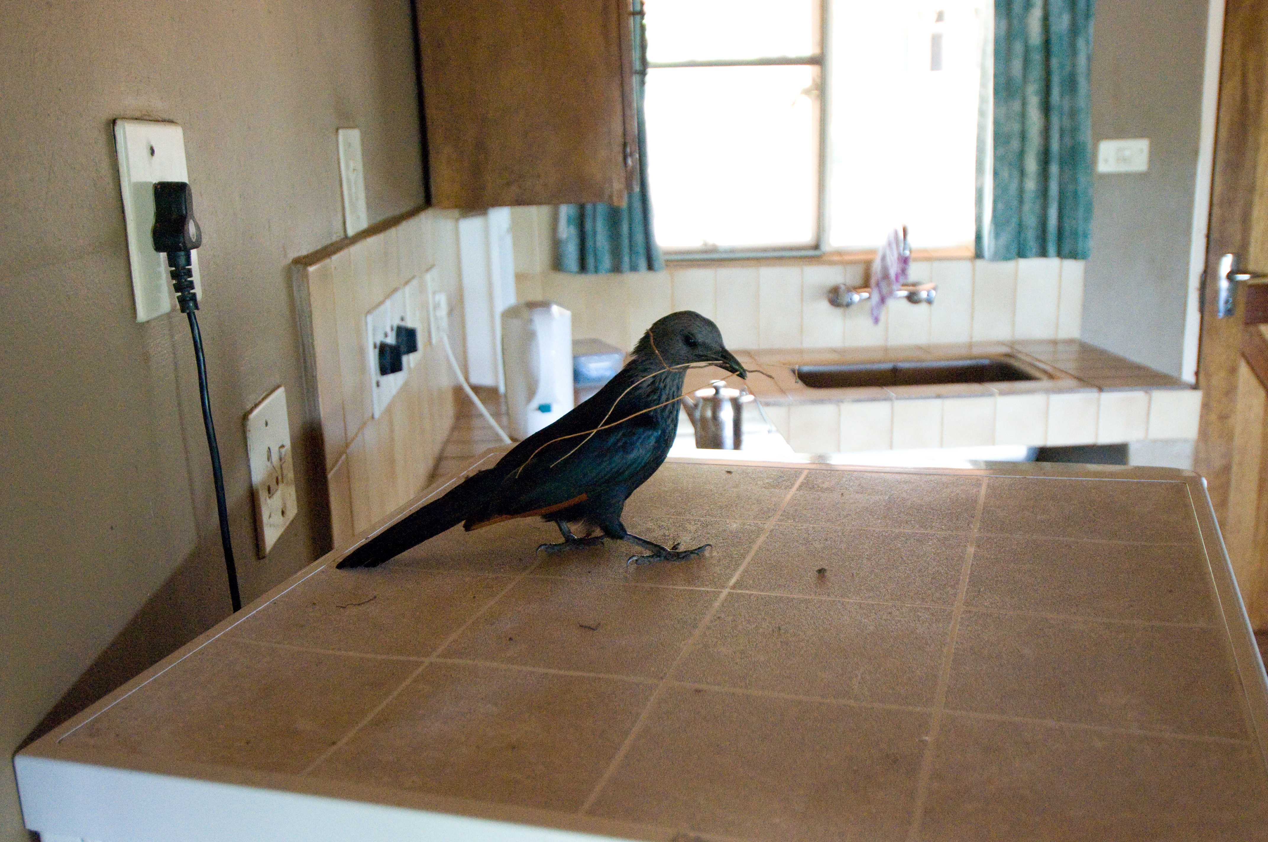 A pair of Red-winged Starlings (Onychognathus morio) were busy setting up home in the thatched roof above the kitchen.